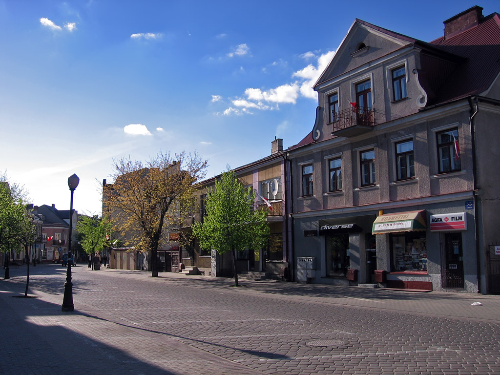 City of Ostroleka (Poland), Glowackiego Street.